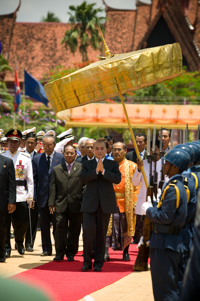 His Majesty, King Norodom Sihamoni of the Kingdom of Cambodia at the Royal Ploughing Ceremony in Phnom Penh.